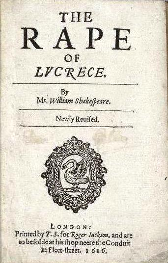 Title page of William Shakespeare's The Rape of Lucrece London (1616)